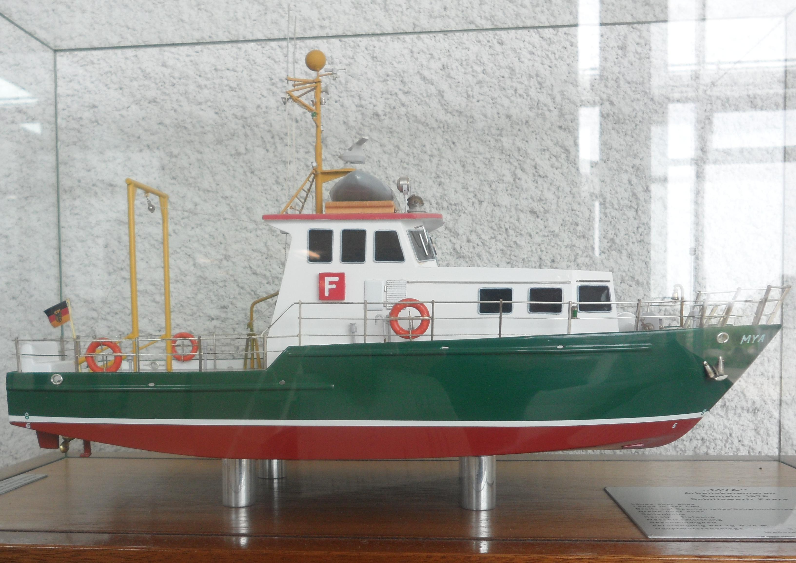 Model of the research ship Mya